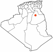 Blank map of the provinces of Algeria with a red city locator dot. Made by User:Escondites, blank version by User:Golbez.